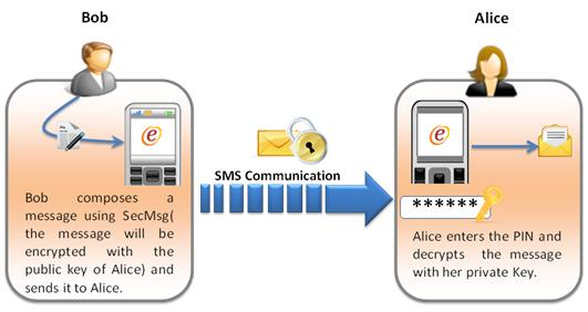 Secure communication